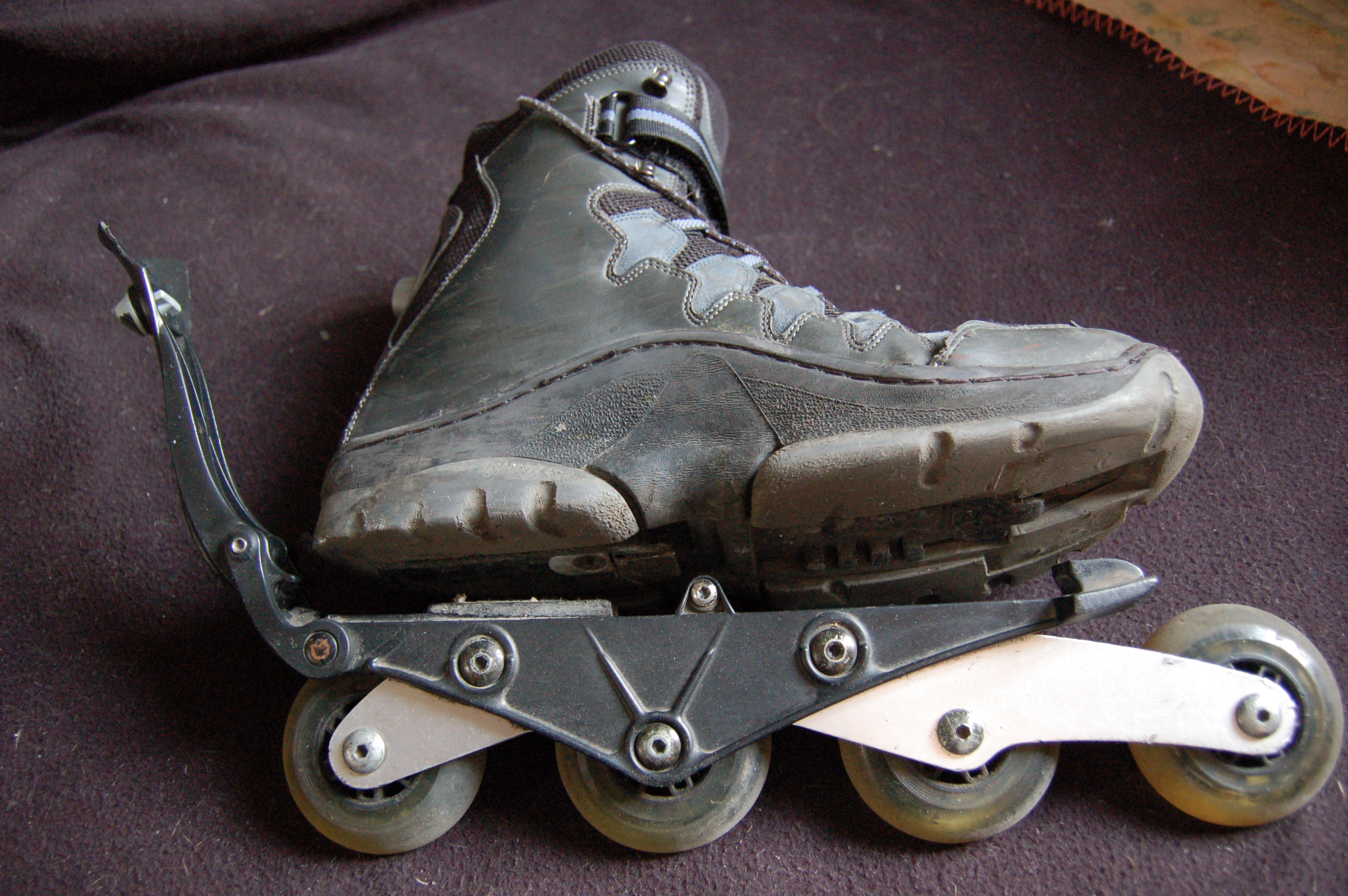 roller chaussure, inline skates by Hypno Skates, Italy, patented in 1996, this model circa 1998. Boot detachable from the inline frame to allow normal walking